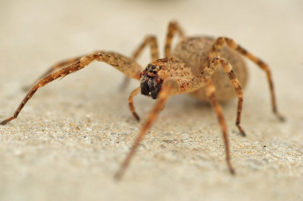 Zoropsis sp., Female, False wolf spider